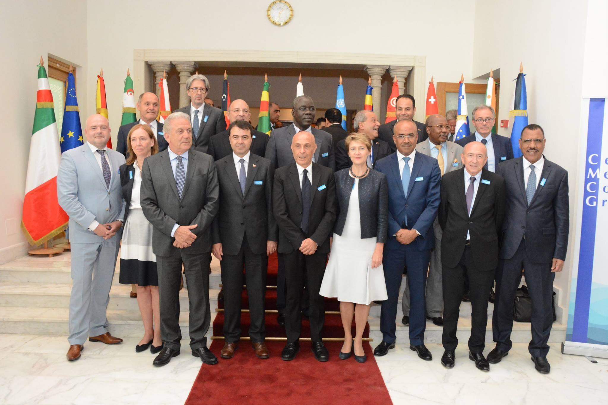 The second Ministerial meeting of the Contact Group on the migration route in the Central Mediterranean (headquarters of the General Secretariat of the Council of Arab Ministers), Tunis, July 24, 2017: 1st row, from left to right: Andres Anvelt (Estonian Minister of the Interior), ?? (Germany), Dimítris Avramópoulos (European Commissioner for Migration, Home Affairs and Citizenship), Hédi Majdoub (Tunisian Minister of the Interior), Marco Minniti (Italian Minister of the Interior), Simonetta Sommaruga (Federal Councilor Swiss), Noureddine Bedoui (Algerian Minister of the Interior), Gérard Collomb (French Minister of the Interior), Mohamed Bazoum (Nigerien Minister of the Interior). 2nd row, from left to right: Wolfgang Sobotka (Austrian Minister of the Interior), ?? (Slovenia), Michael Farrugia (Maltese Minister of the Interior), Abdramane Sylla (Minister of Malians Abroad),? (?), El Aref Salah Khouja (Libyan Minister of the Interior), Ahmat Mahamat Bashir (Chadian Minister of Security).